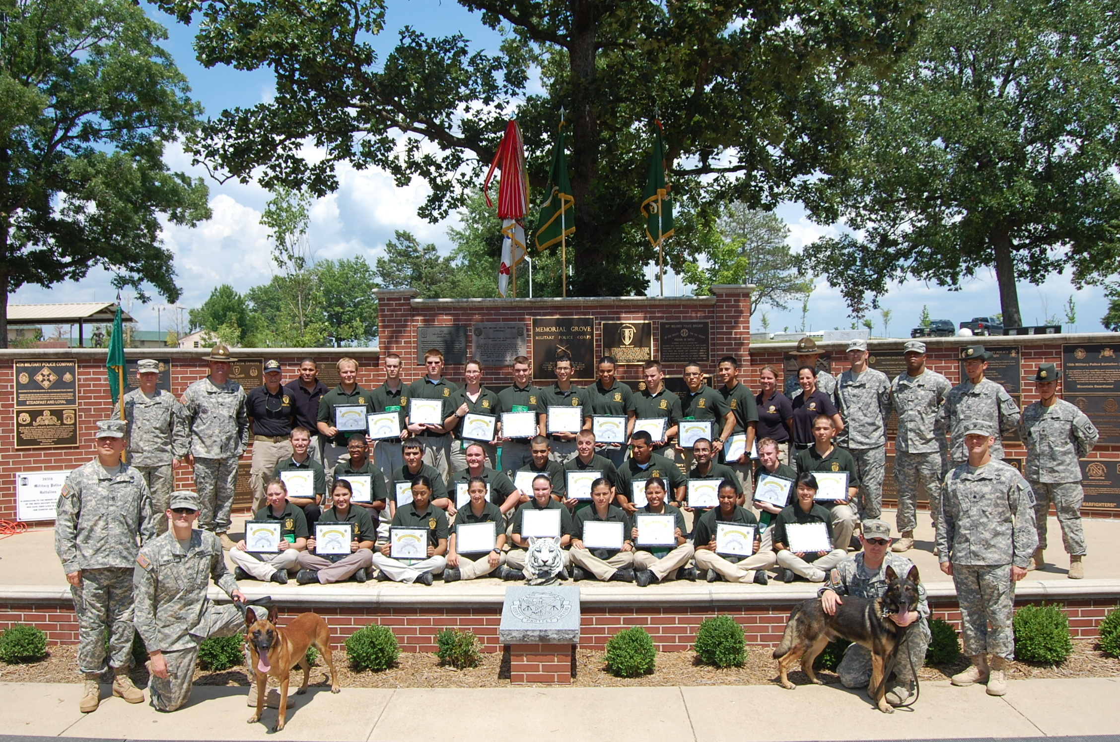 Twenty-nine Explorers graduate the National Law Enforcement Explorer Academy during a ceremony held on Fort Leonard Wood’s Military Police Memorial Grove, July 19. The eight-day academy, hosted by the U.S. Army Military Police School and 701st MP Battalion, provided practical training and leadership experience, as well as an exploration of careers within the Military Police Corps.